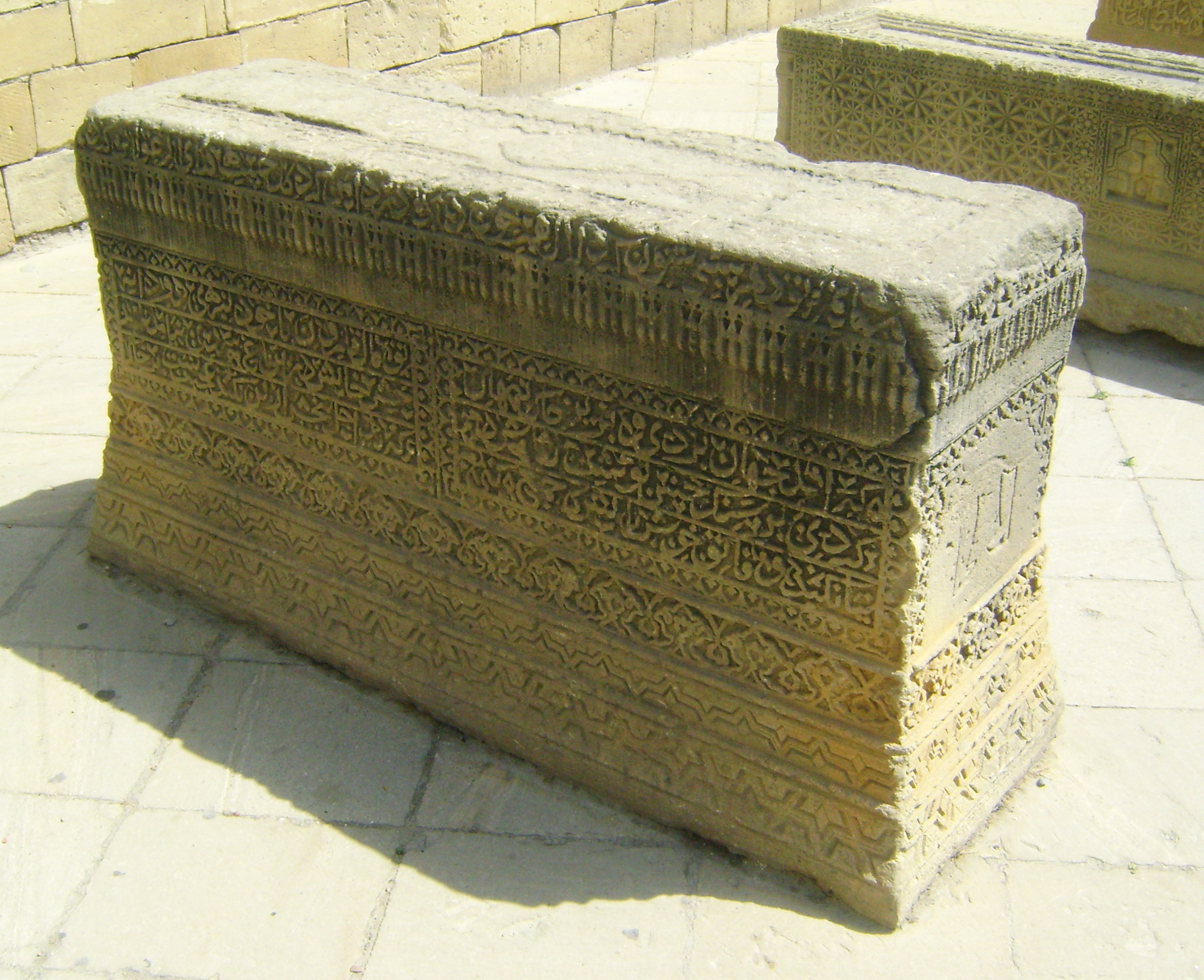 stone - old_hamam(bath) 12th century